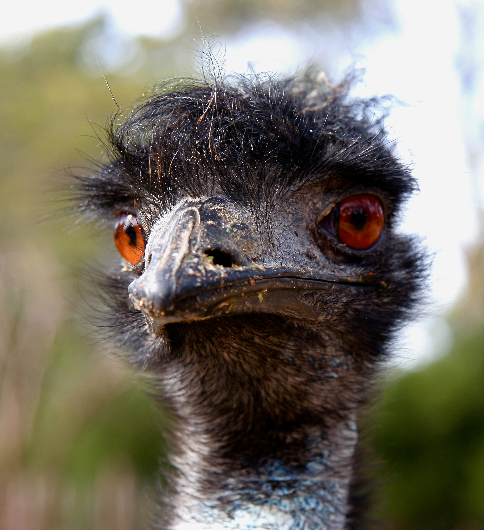 Emu at Royal Melbourne Zoo, Australia. Photo shows head and upper neck.